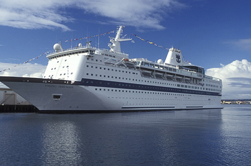 ib2485 cruise san diego california ca cruise ship viking serenade docked in san diego harbor in san diego